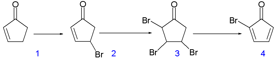 Cubane Synthesis Precursor.